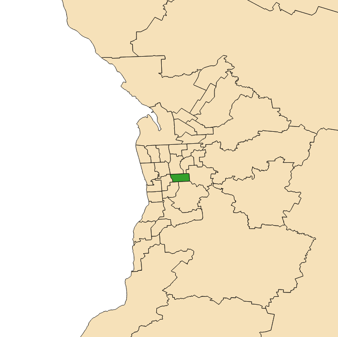 Electoral district 2018 boundaries shown in green